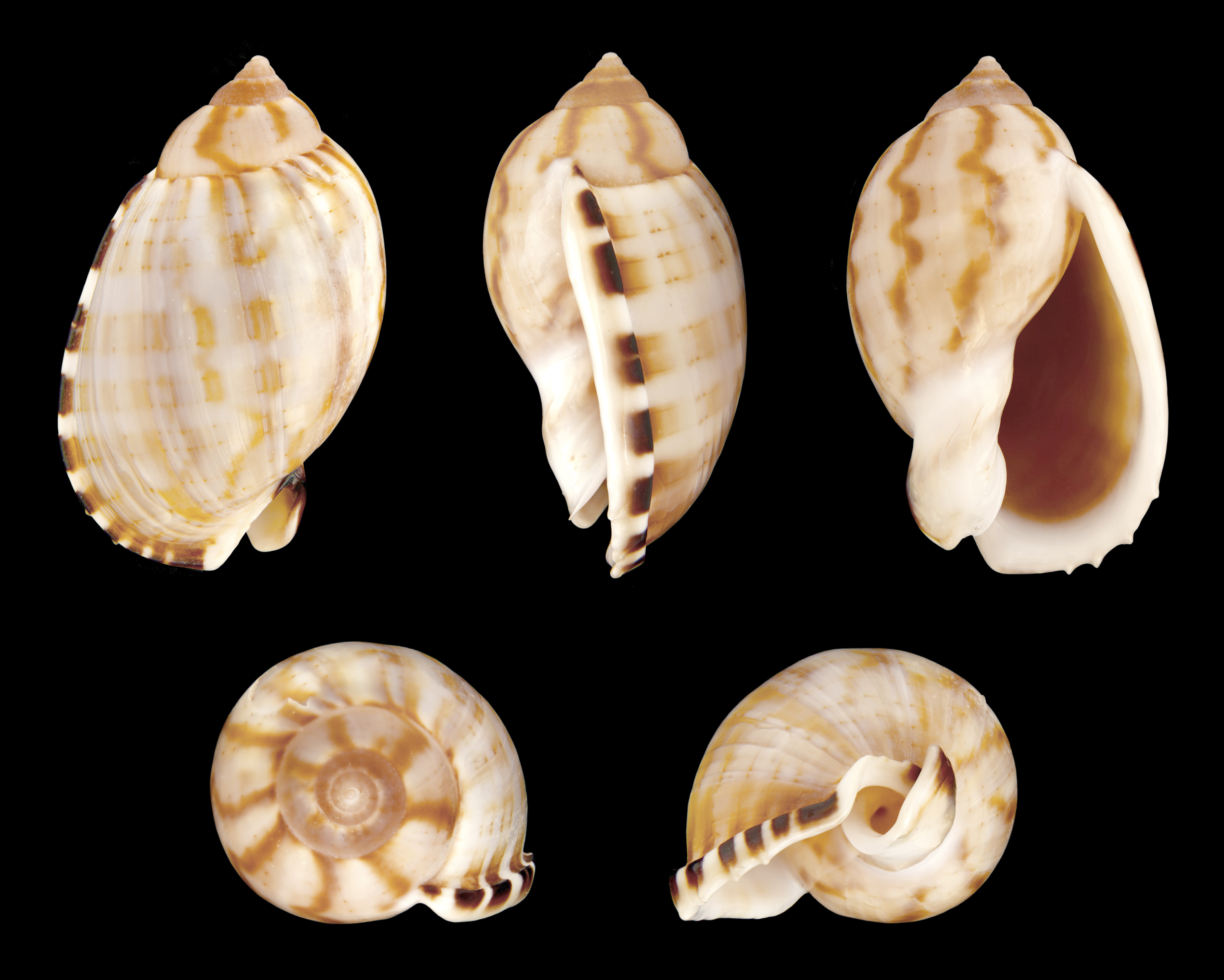 Vibex Bonnet; Length 3.5 cm; Originating from Bohol, Philippines; Shell of own collection, therefore not geocoded. Dorsal, lateral (right side), ventral, back, and front view.